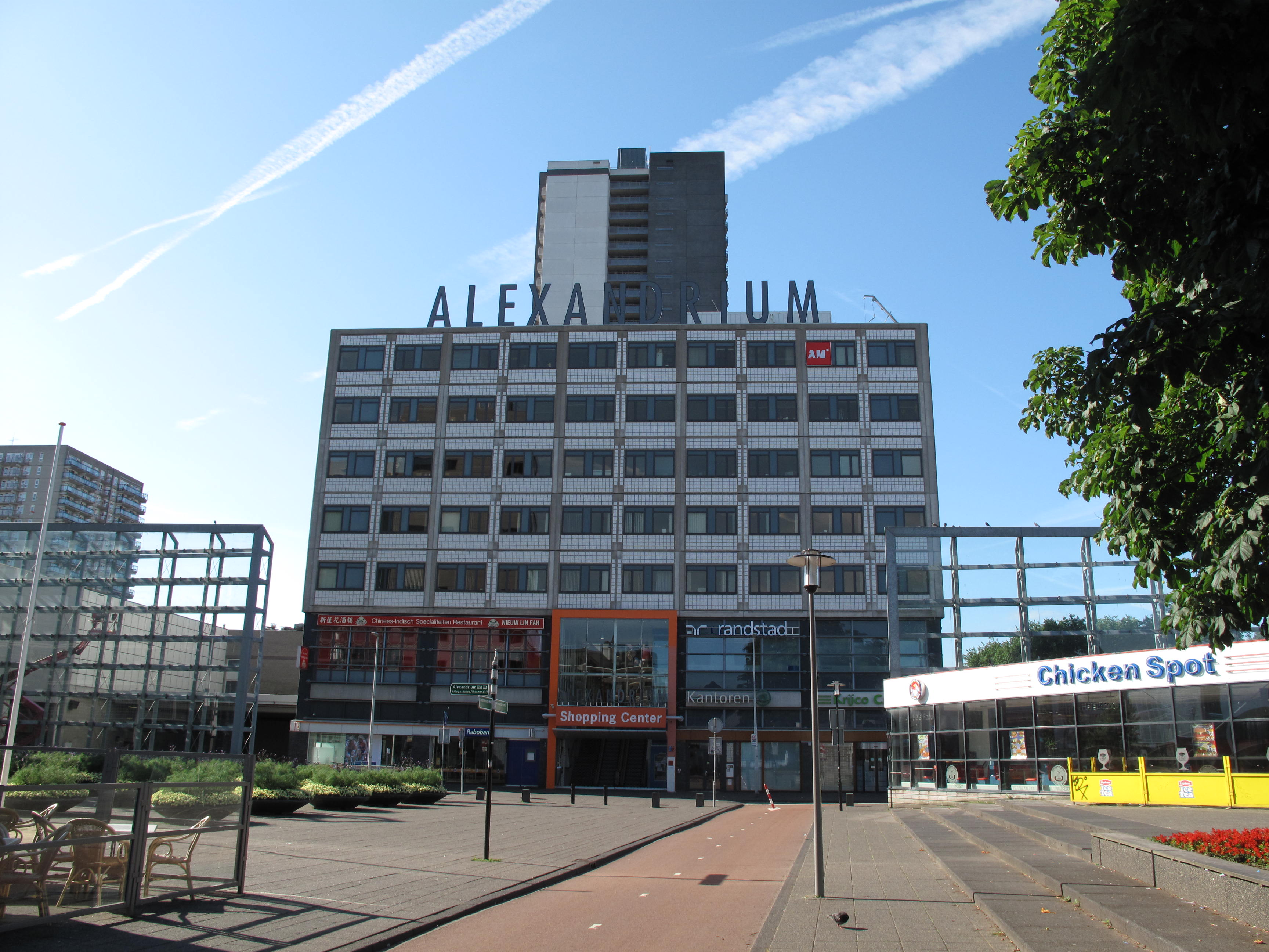 Rotterdam-Alexander, shopping center: Alexandrium